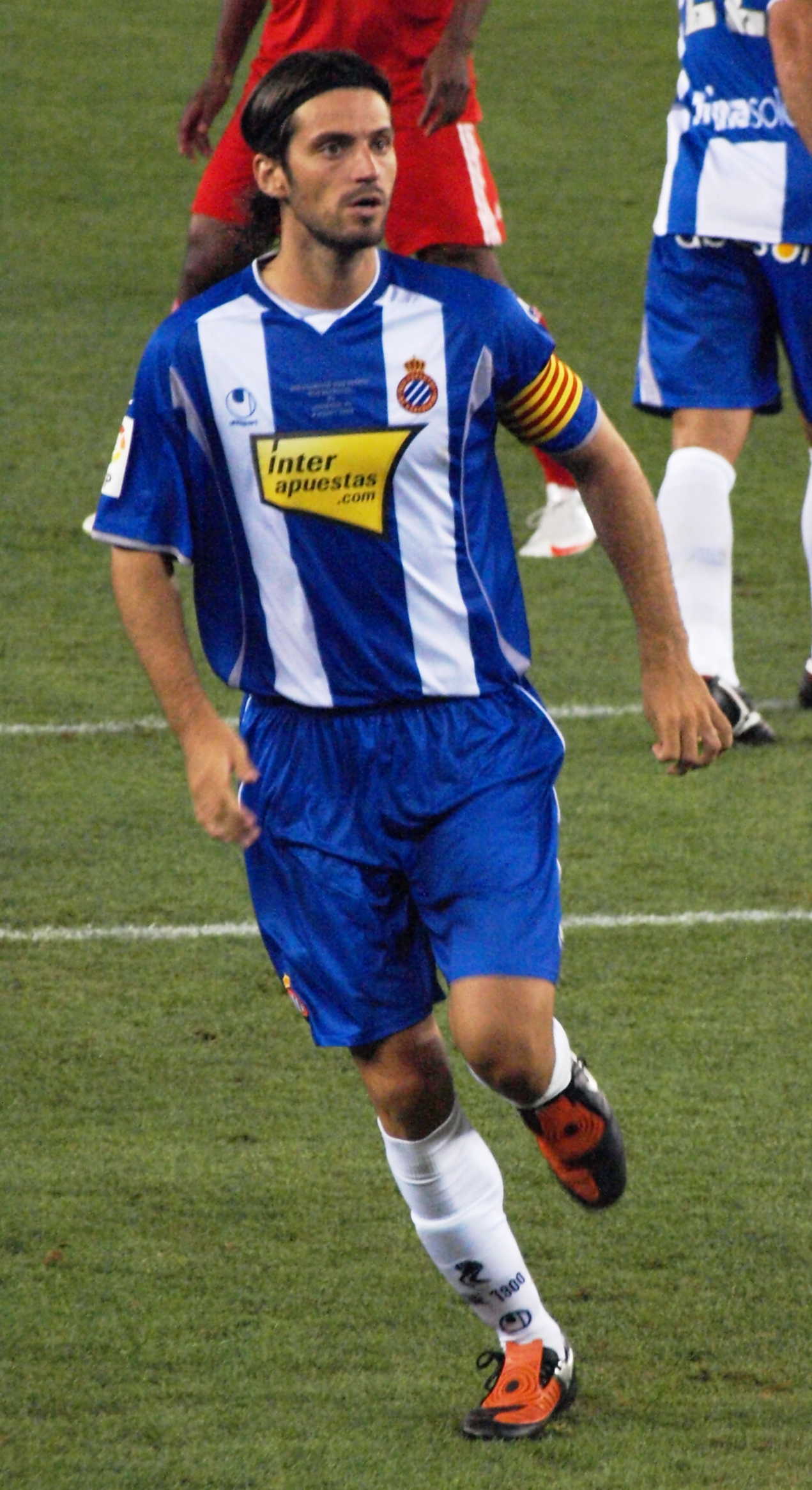 Dani Jarque, while he was captain of RCD Español in a match played at Cornella-El Prat Stadium in august 2009 against Liverpool FC.